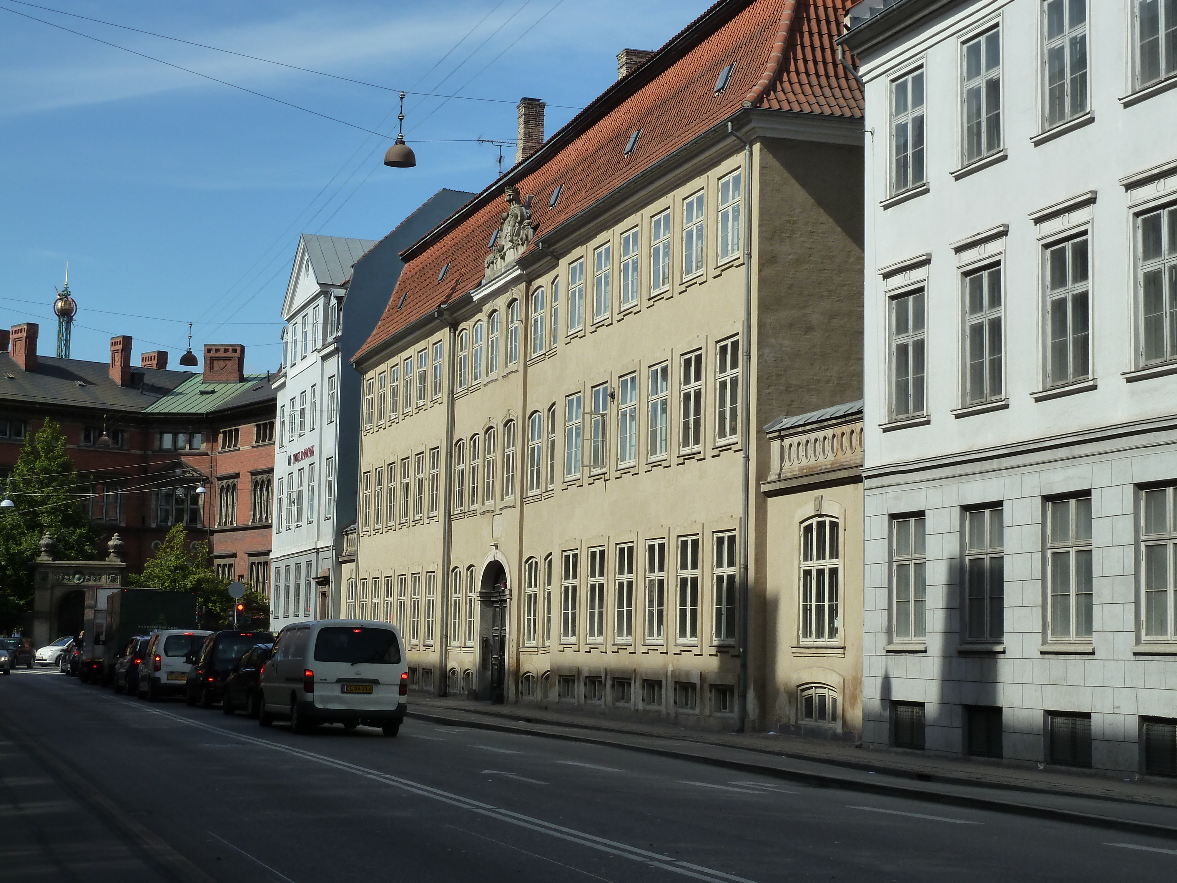 Det Harboeske Enkefruekloster on Stormgade in Copenhagen, Denmark